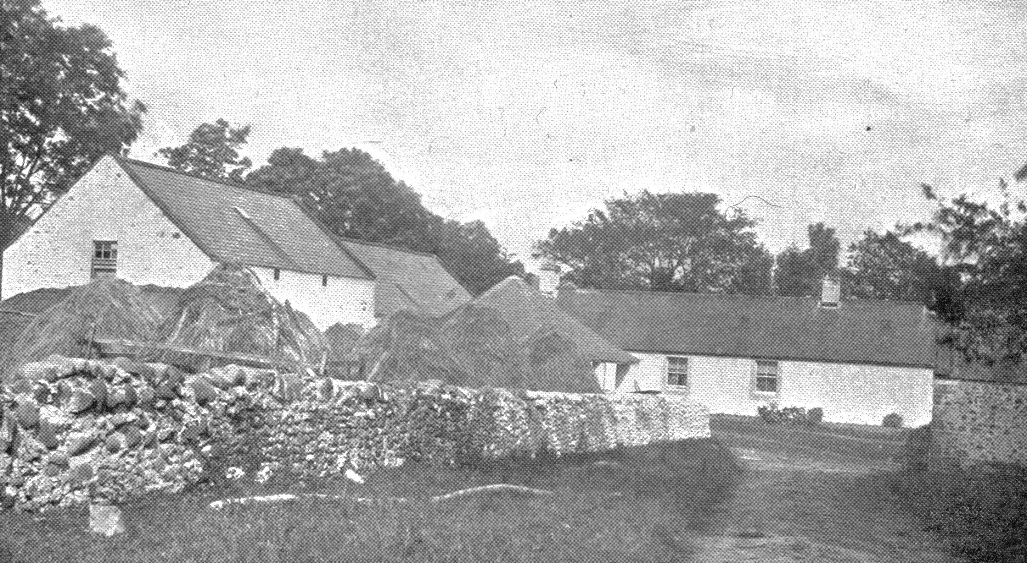 Ellisland farm, Nithsdale, Dumfries, Scotland, circa 1900